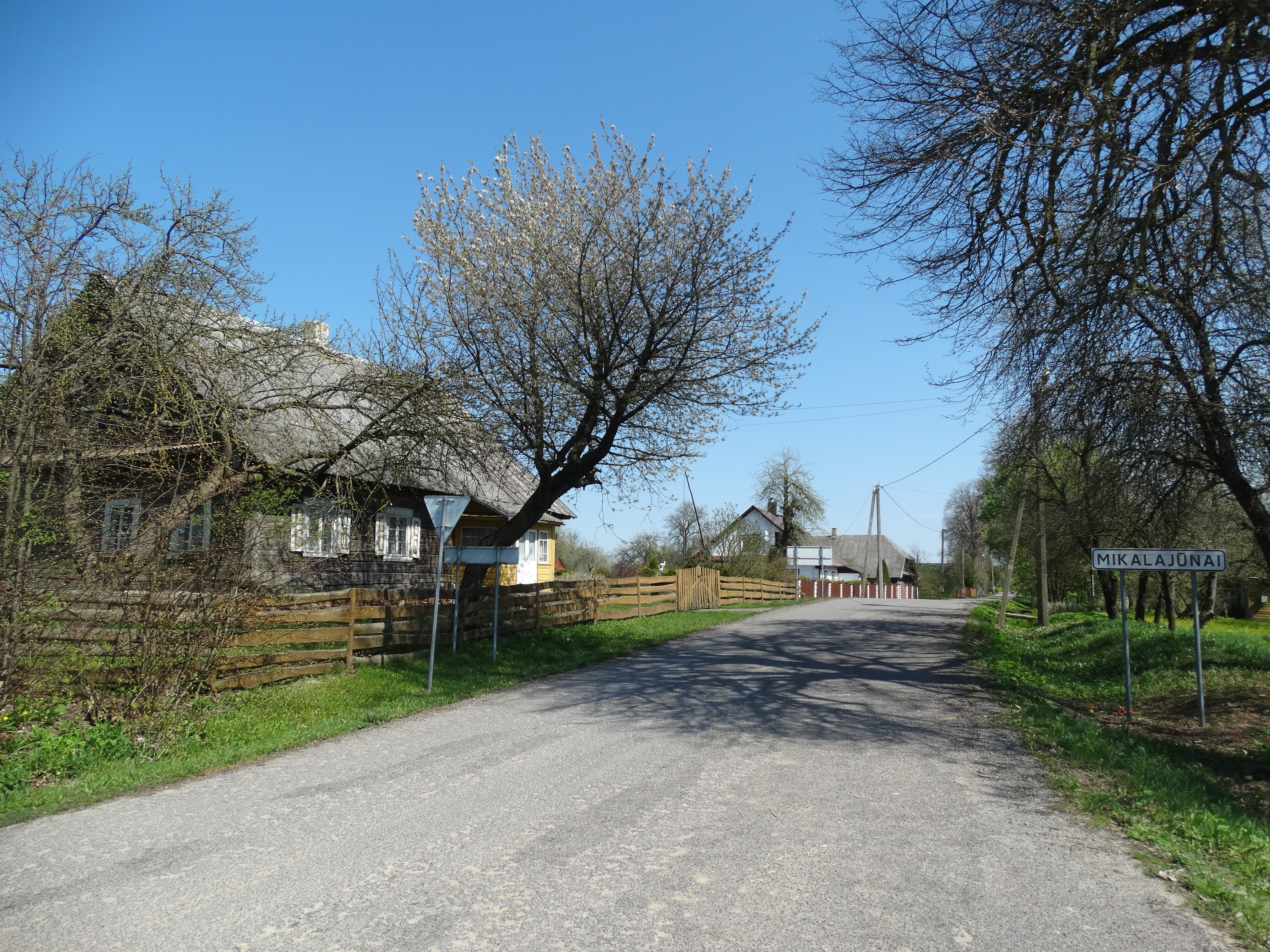 Mikalajūnai , Širvintos District, Lithuania